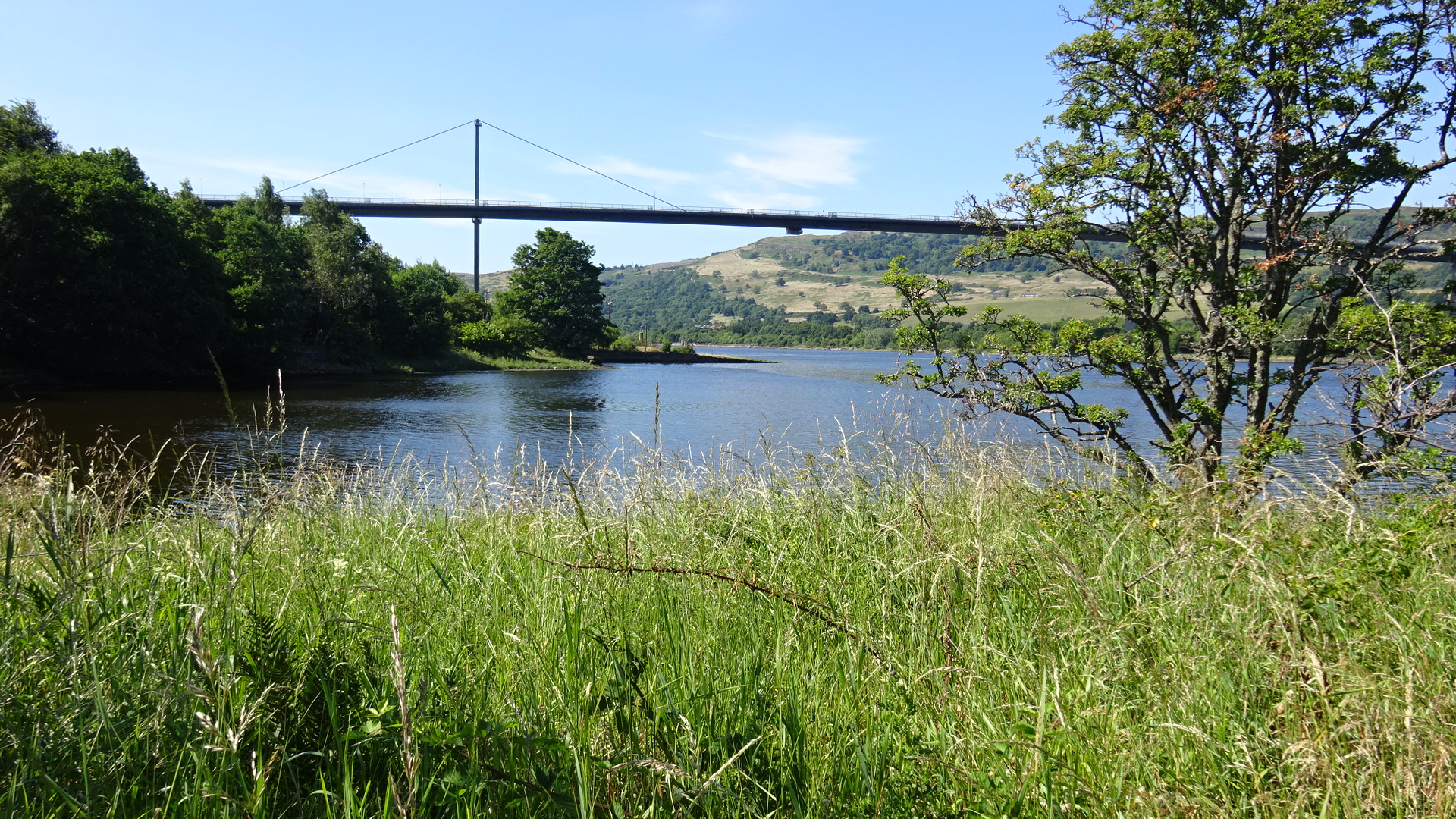 From Bodinbo Island towards the Erskine Bridge Hotel, Erskine, Renfrewshire, Scotland.